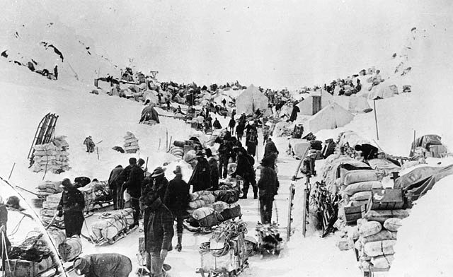 Prospectors with their equipment at the Canadian border control on the Chilkoot Pass between South-east Alaska and British Columbia at the height of the Klondike Gold Rush.